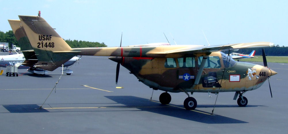 Own photo of O-2 Skymaster